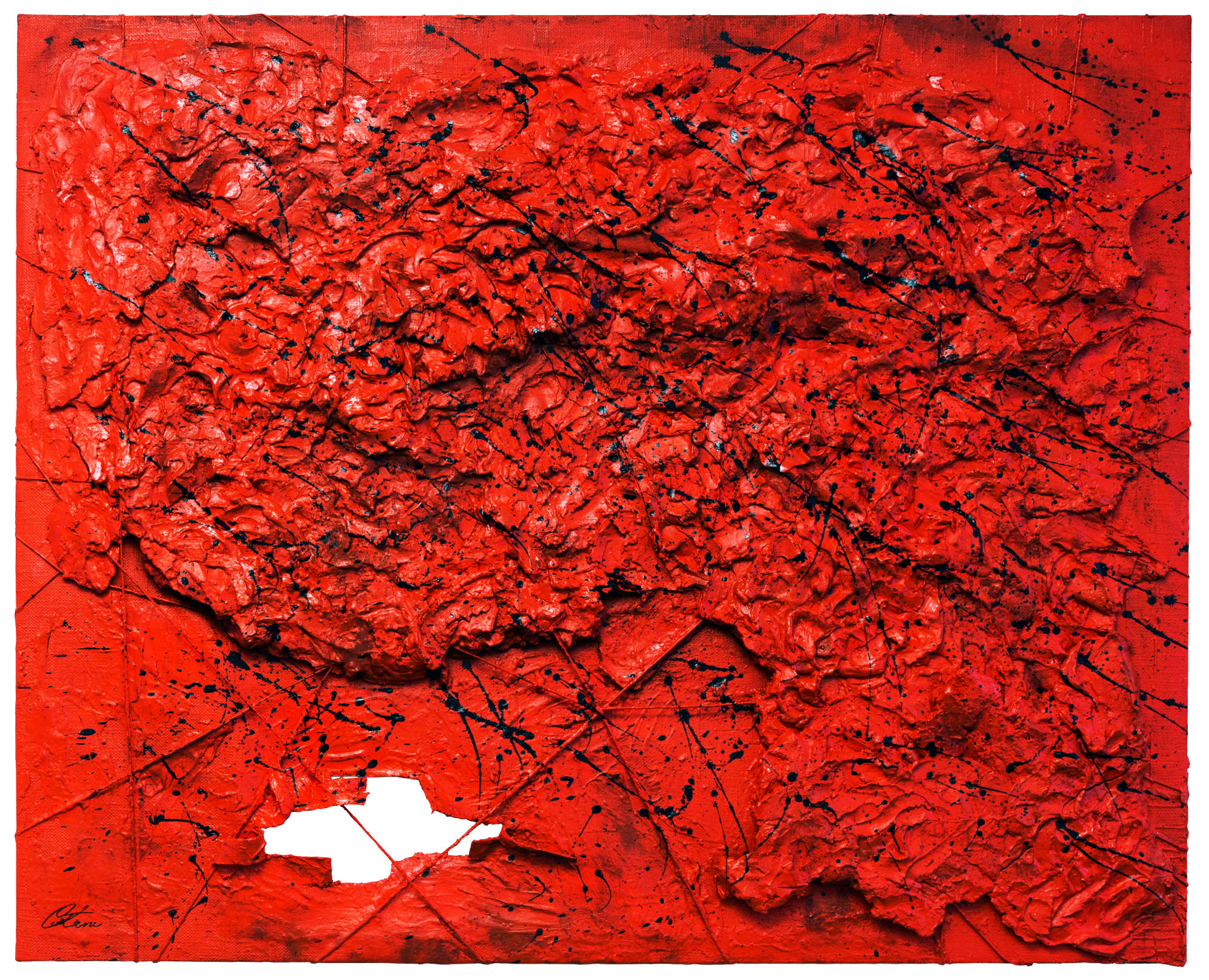 The Cage - 3D Painting - author Cesare Catania - Contemporary Sculpture